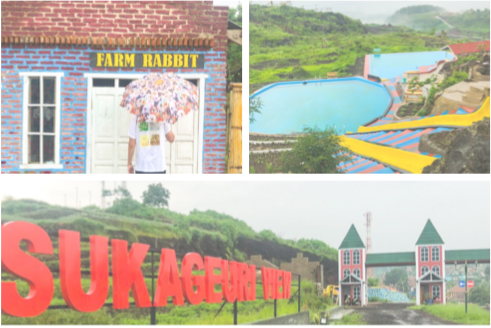 Sukageuri View Front Gate, Farm Rabbit, Swimming Pool